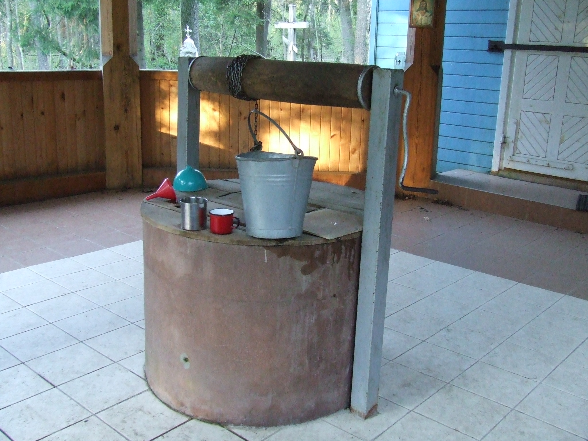 Krynoczka (Hajnowka) - holly place for greek church in Poland